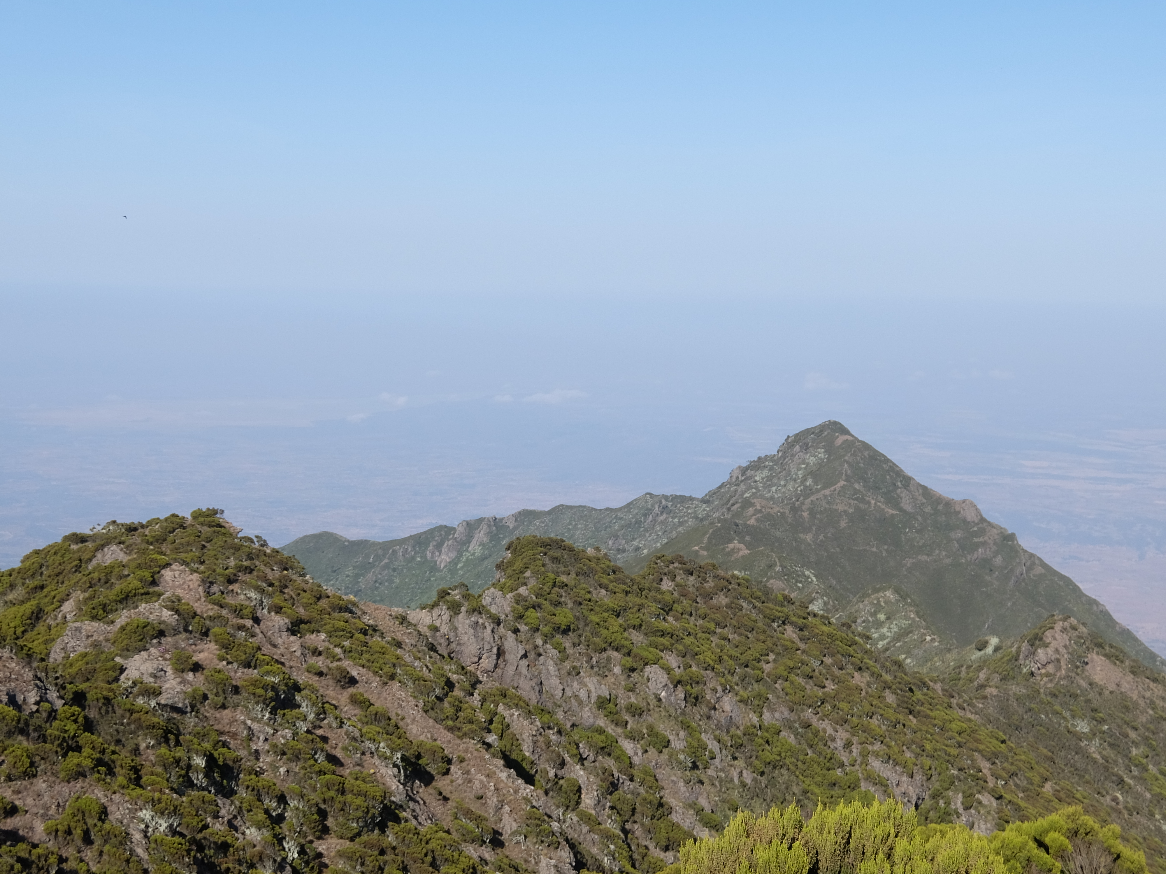 Picture taken during an ascent of Mount Hanang.